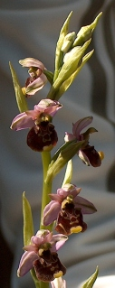 Flowers of Ophrys fuciflora